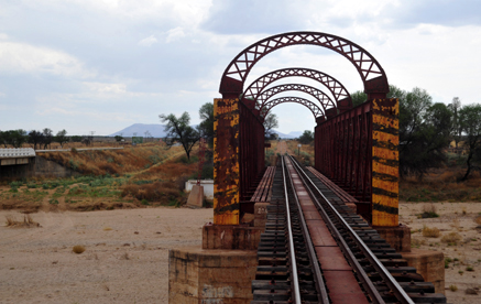 built by the British in 1901 railway bridge over the Seeis